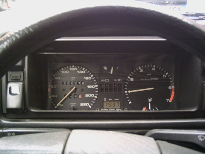 Armaturen Golf II GT mit MFA